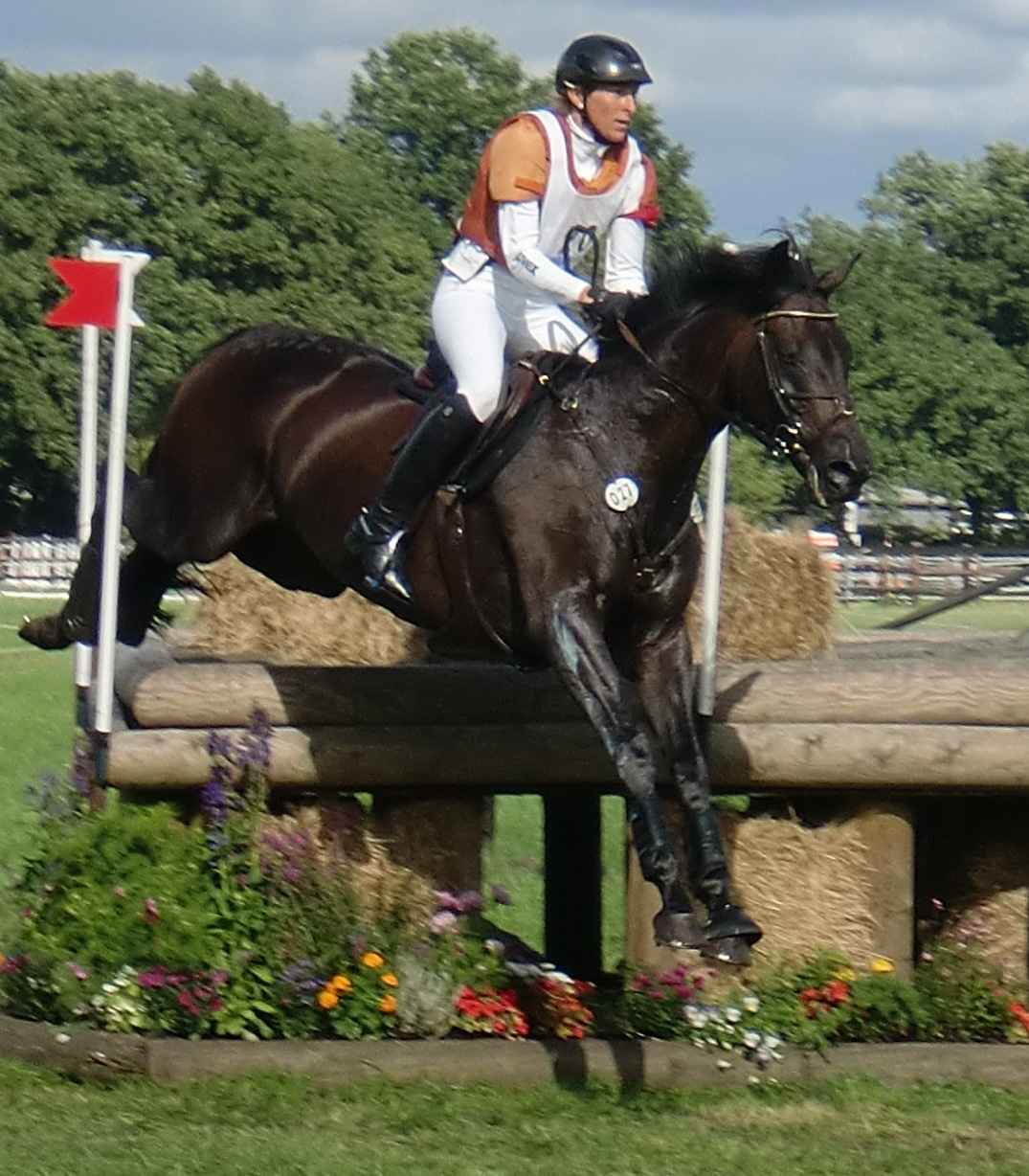 Ingrid Klimke and Butts Abraxxas at fence 16c (Schoopstall), German Eventing Championships, CIC 3*-W Schenefeld 2010